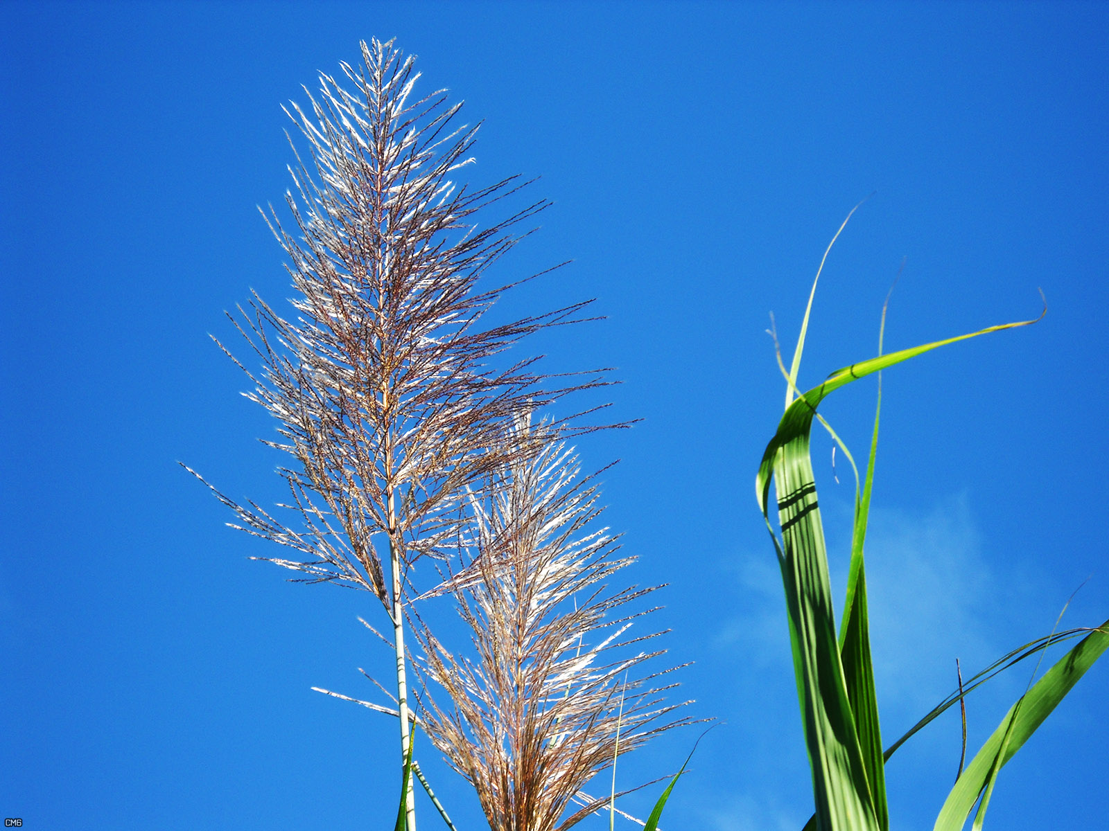 Flowering Sugarcane